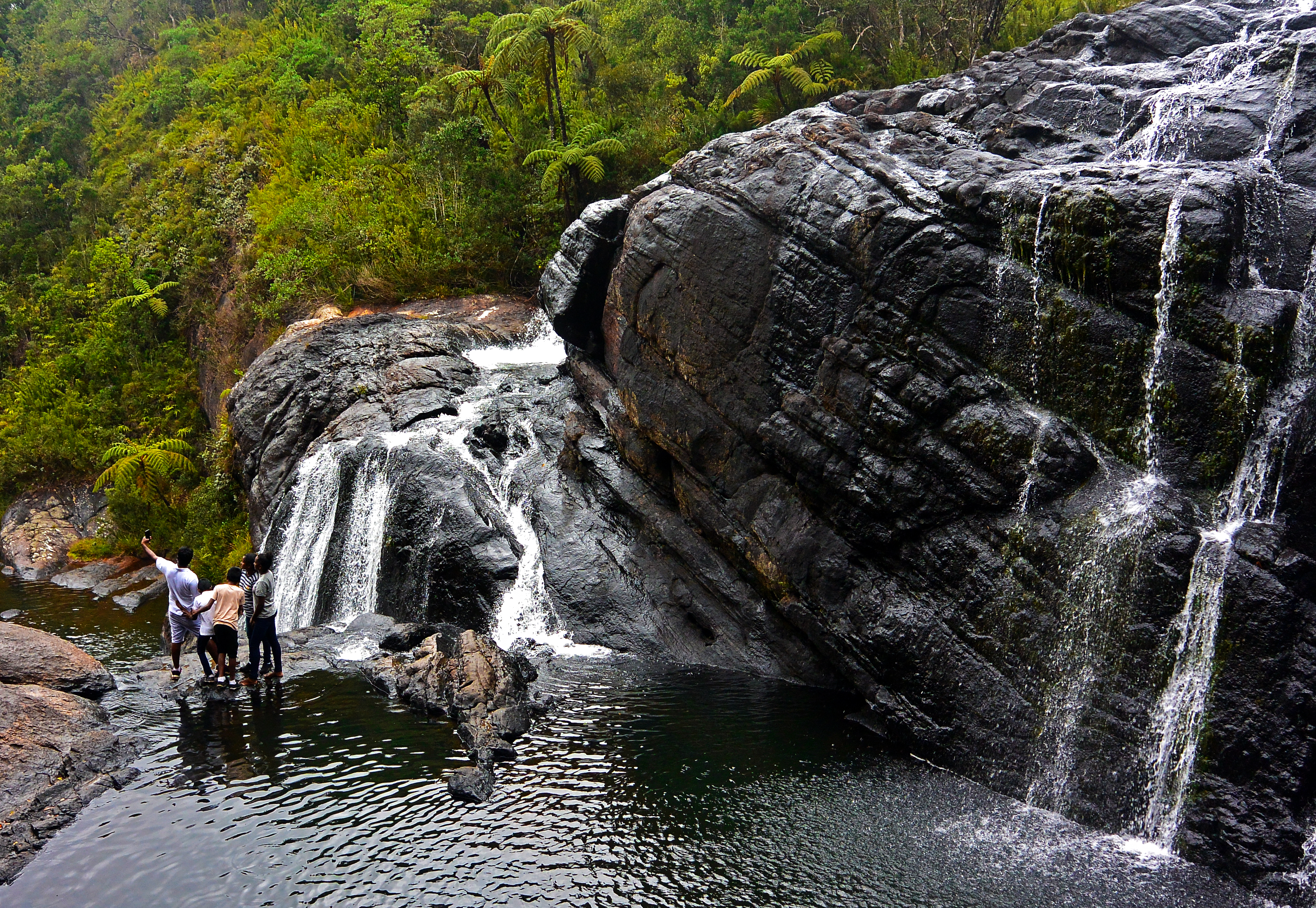 Selfie with waterfall in Horton Plains